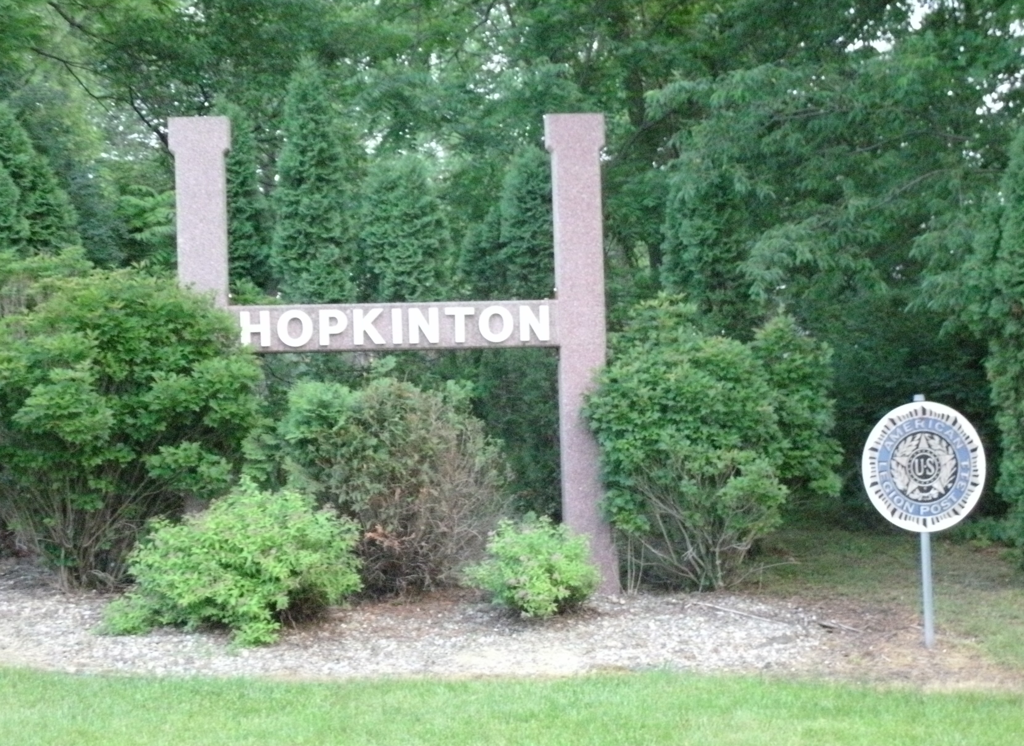 Welcome Sign Hopkinton, Iowa located on Iowa Highway 38 south of town.